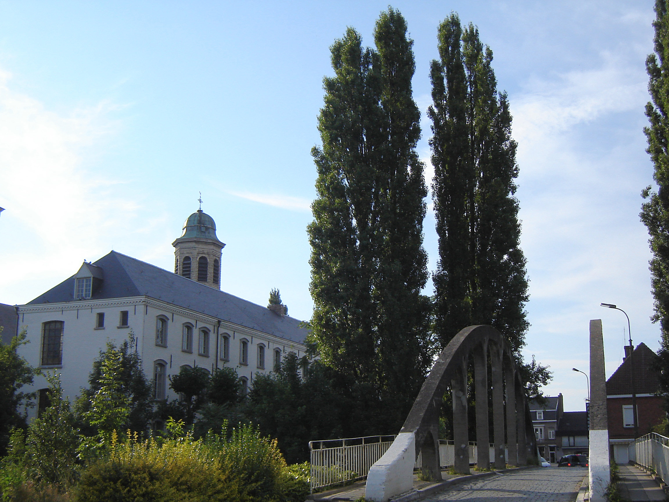 View on Drongen, with the "Oude Abdij" (Old Abbey), the tower of the Church of Saint Gerulph, and the Pontbrug bridge over an arm of the river Lys. Drongen, Gent, East Flanders, Belgium